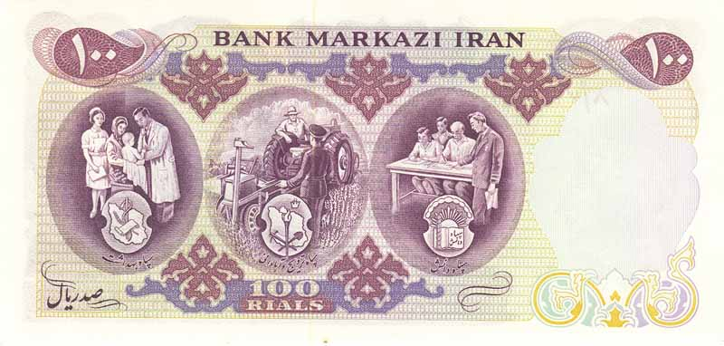 100 rials of second Pahlavi for 2500 years of Persian empire (rear) banknote of central bank of Iran.